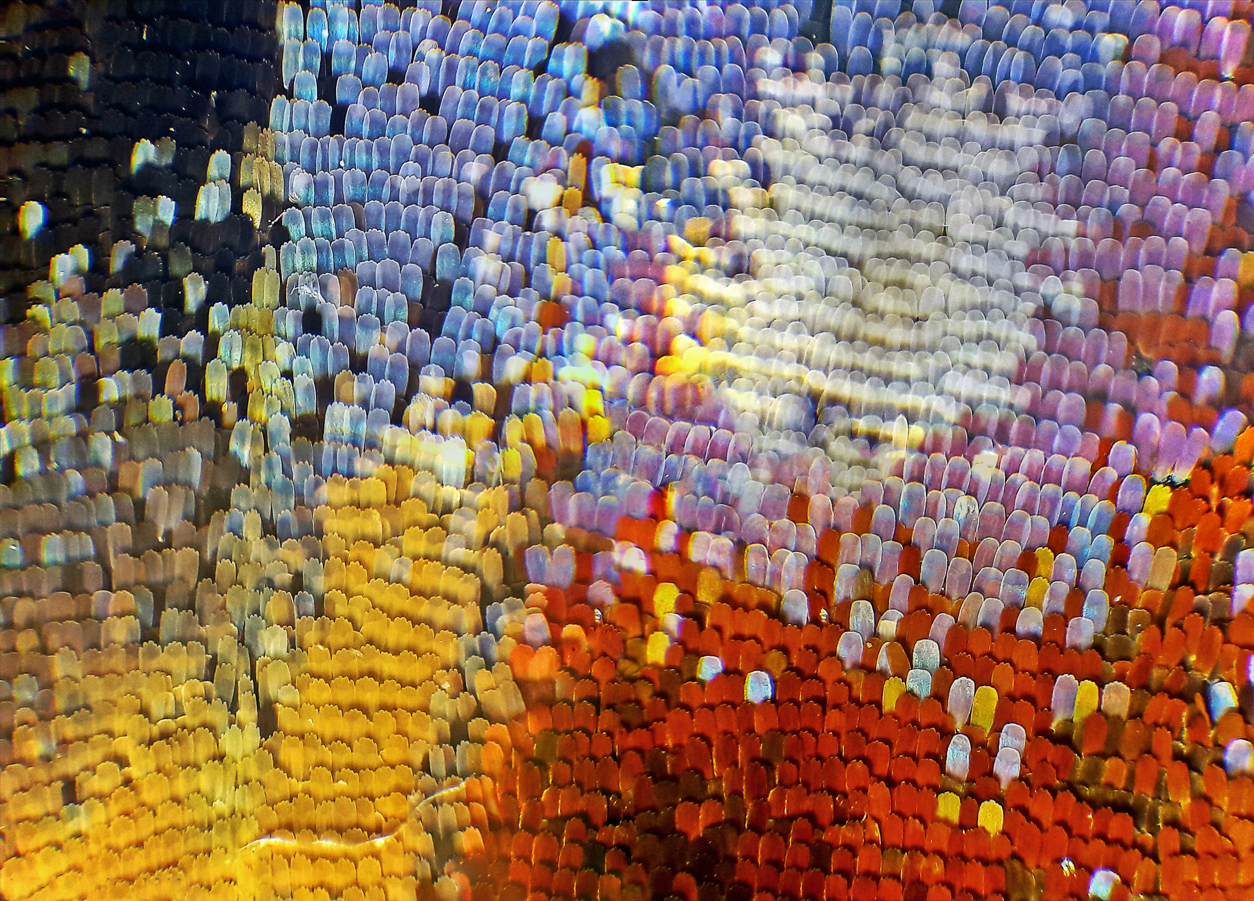 Wing peacock butterfly (Aglais io) under the microscope.